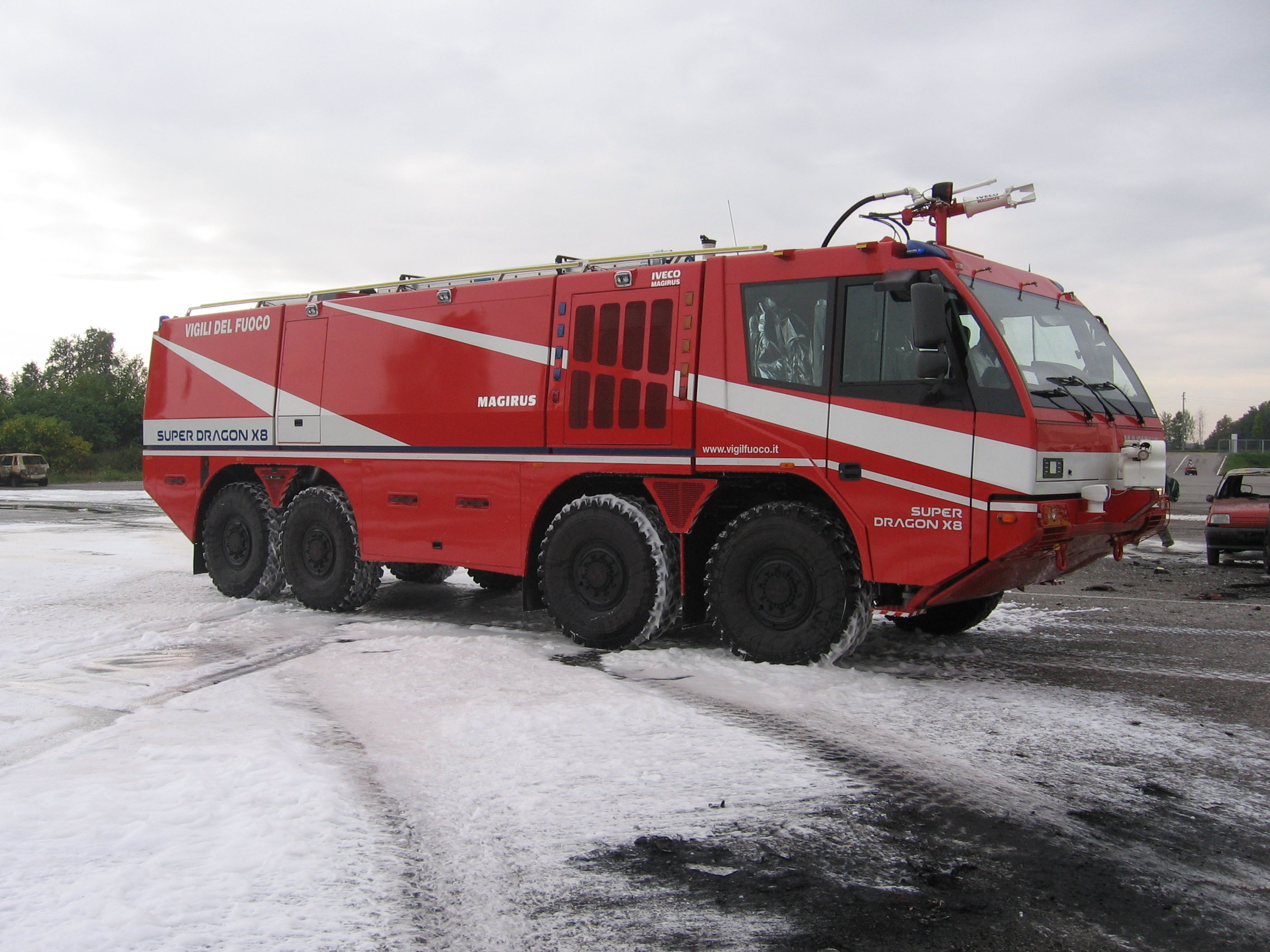 Airport fire truck built by Iveco Magirus displayed at REAS 2007 at Centro Fiera del Garda Montichiari (BS).